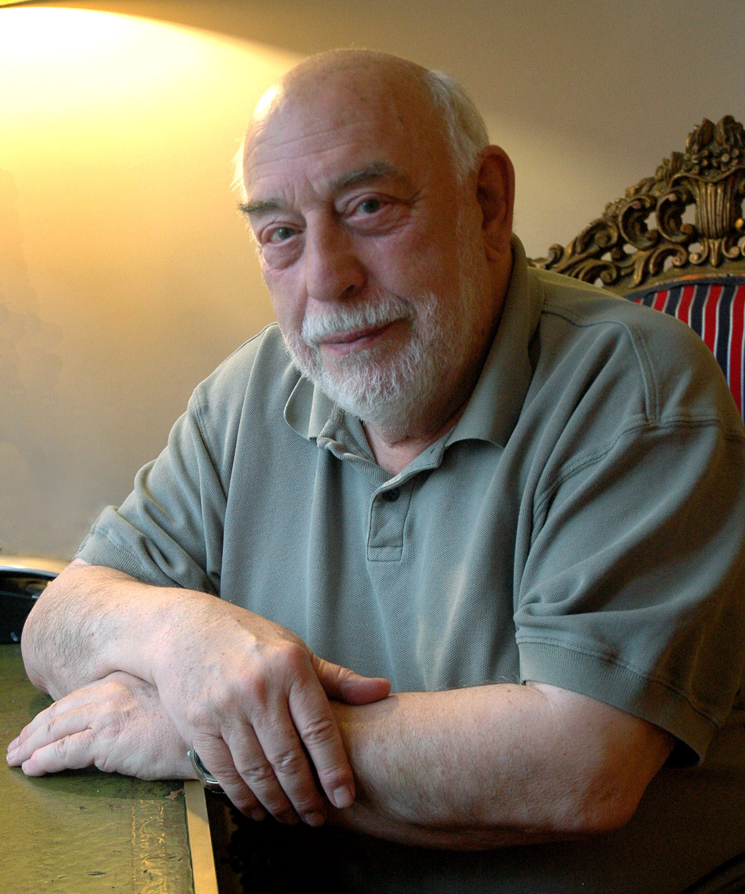 Frank Dunlop taken in London